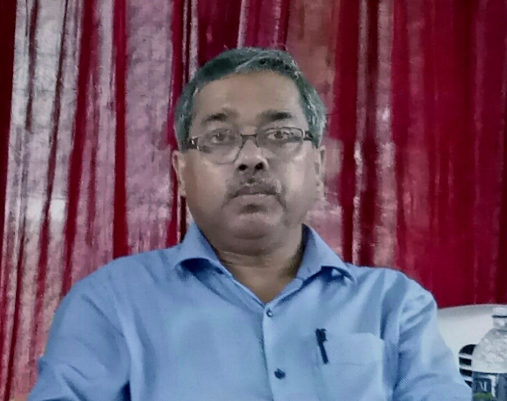 Current Secretary of Ministry of Primary and Mass Education of Bangladesh, Md. Akram-Al-Hossain in 2019